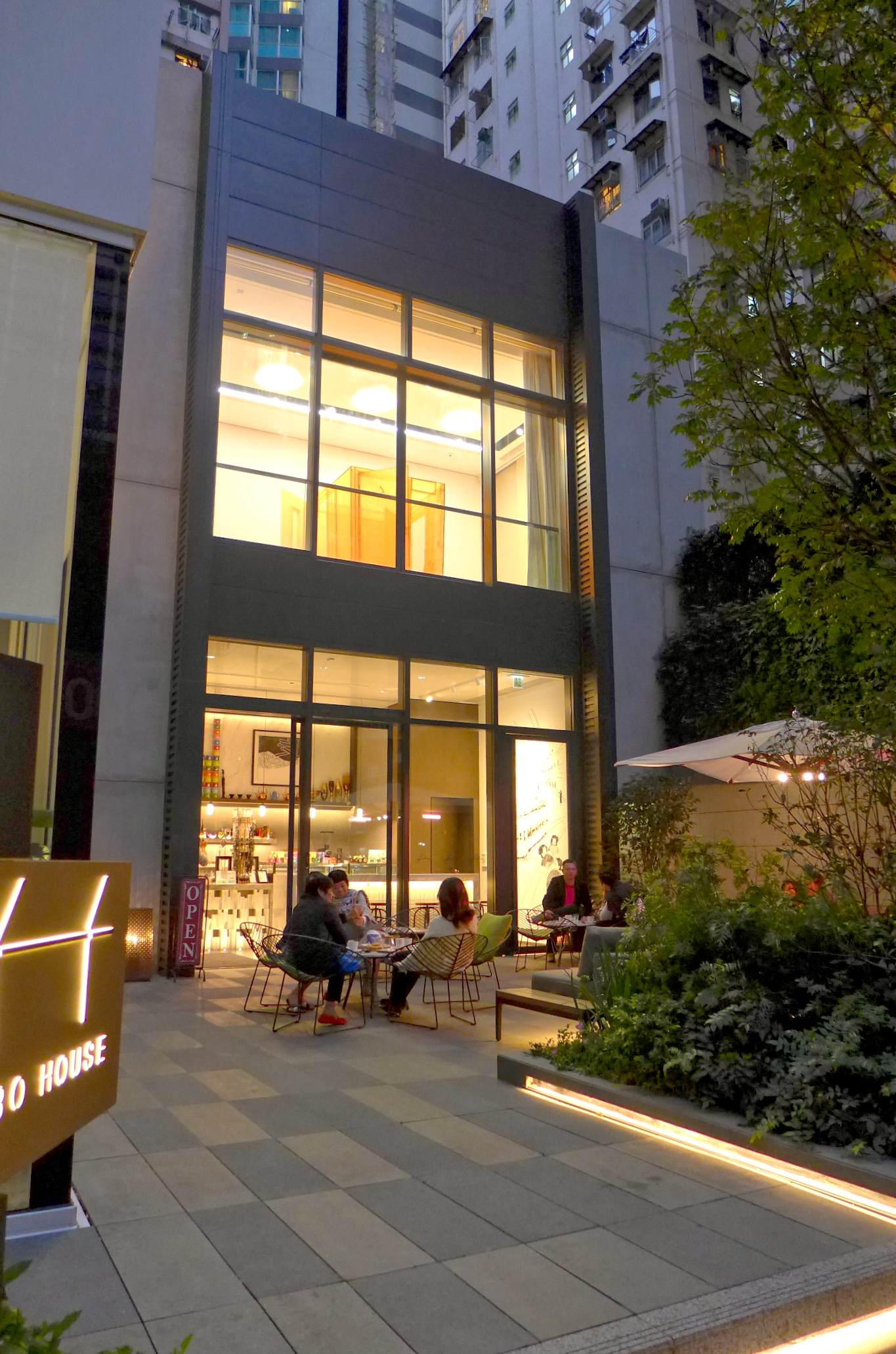 Eight South Lane Shops